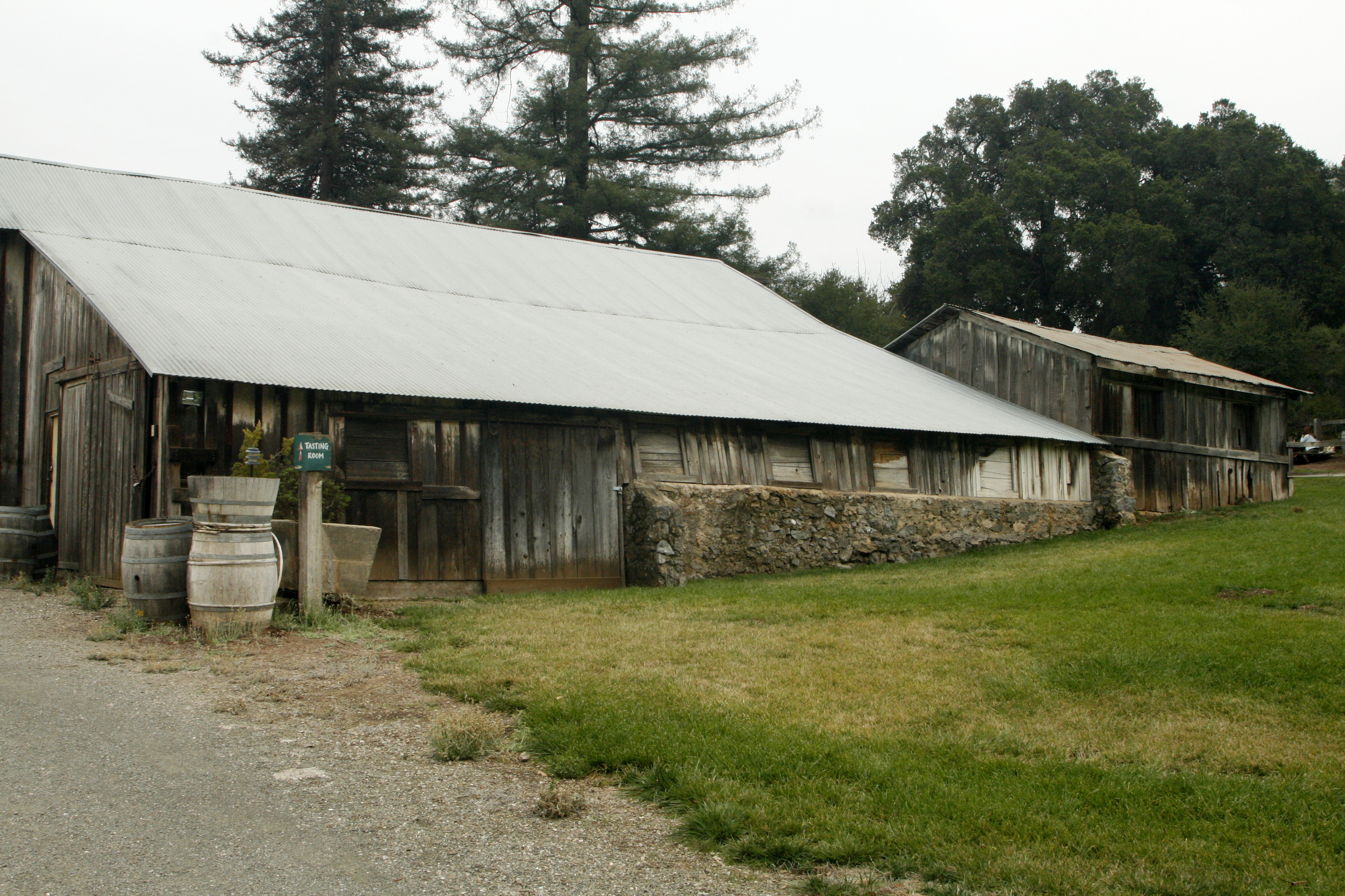 Picchetti Brothers Winery — the wine tasting barn and several historic buildings at Picchetti Ranch, in the Santa Cruz Mountains, Santa Clara County, California. On the National Register of Historic Places.